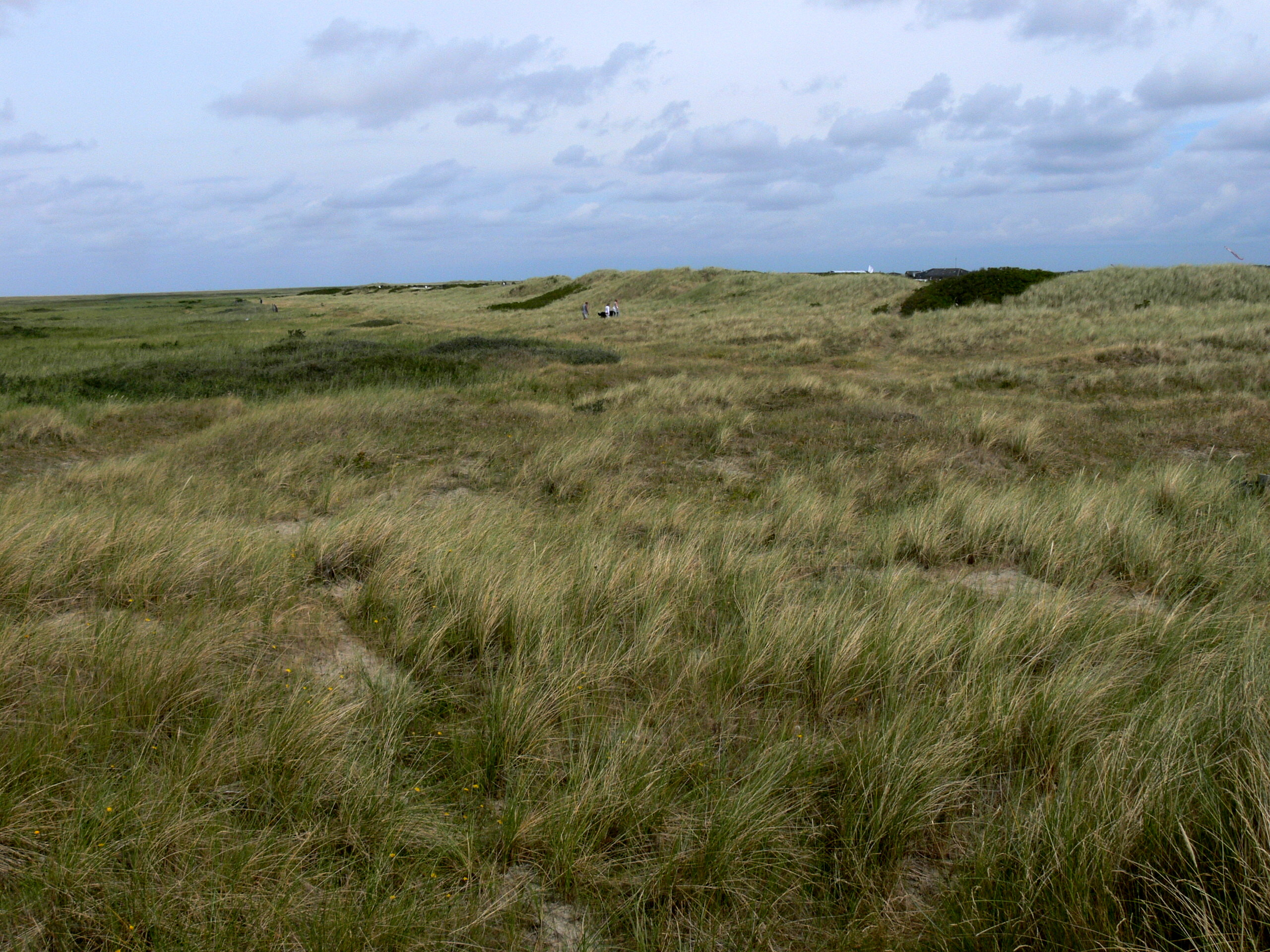 Rømø ( Denmark ). Dunes near Lakolk beach.